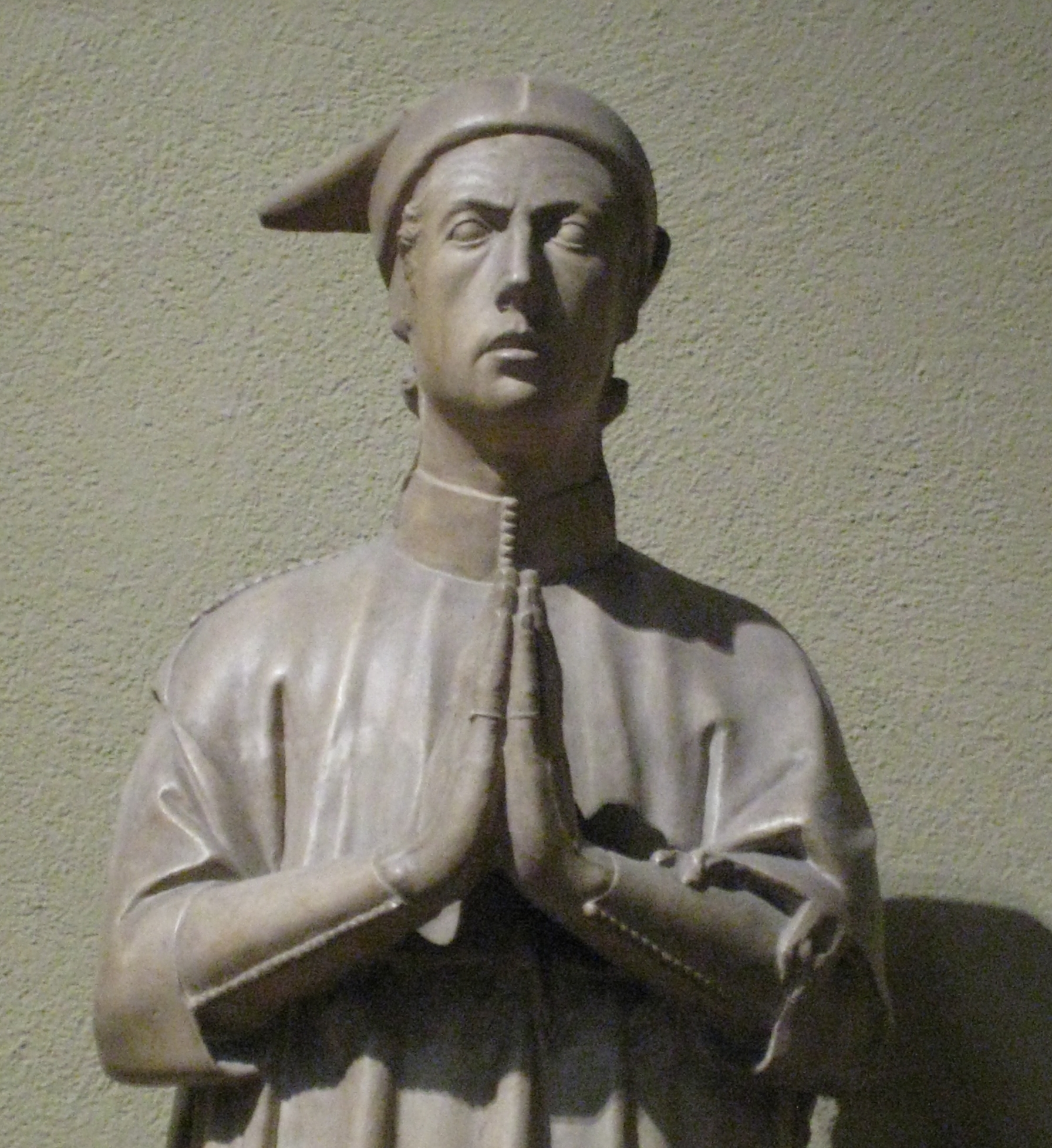 Cast of the portrait of Enrico Scrovegni, made by Unknown artist, probably Marco Romano. Original in Capella degli Scrovegni.